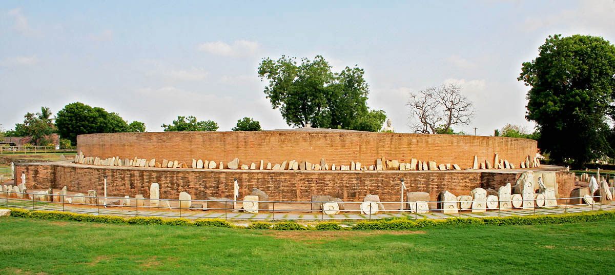 Amaravati Stupa in Amaravati, Andhra Pradesh, India.